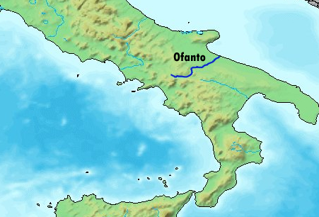 Ofanto river in Italy